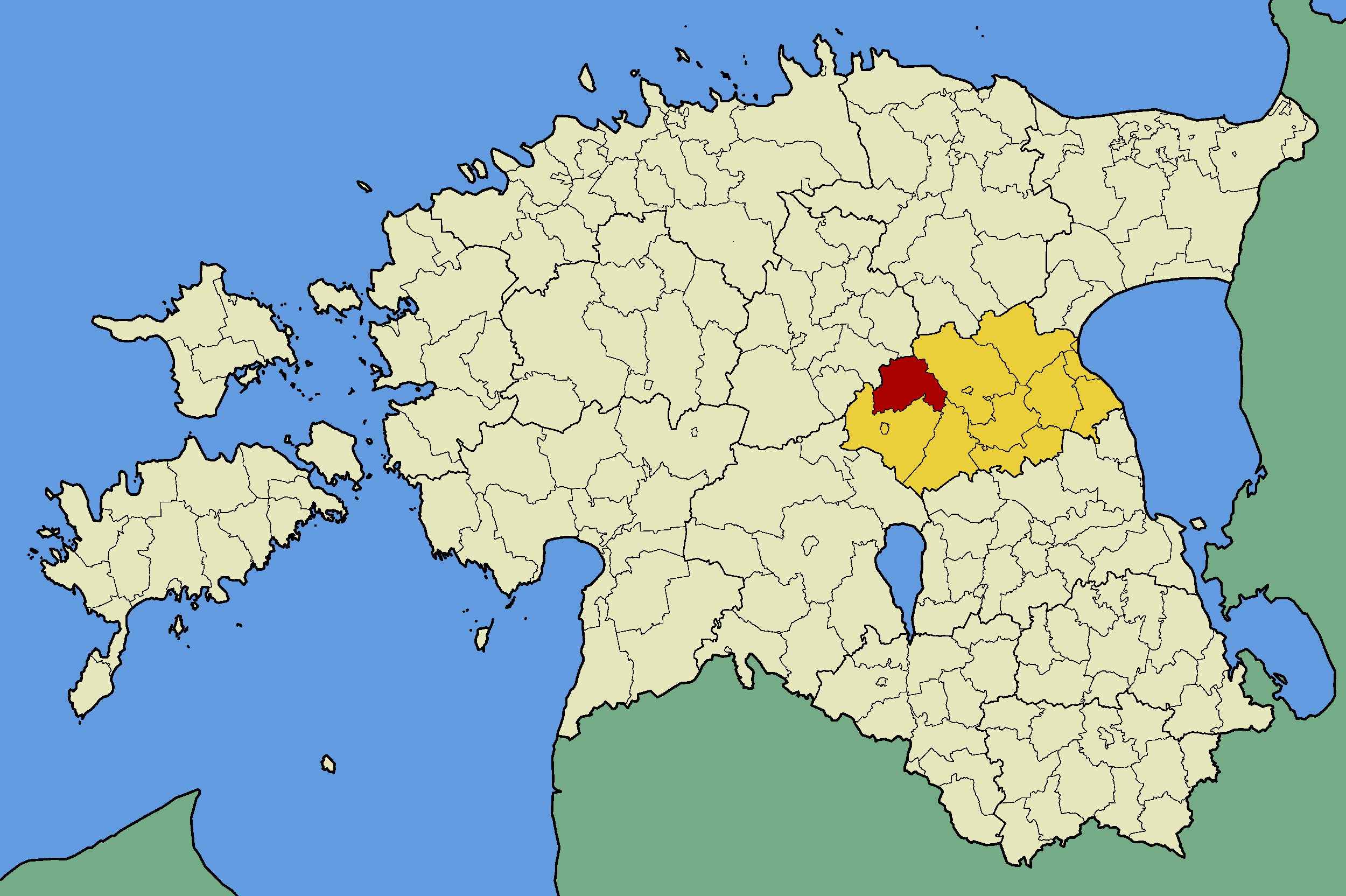 Map of Estonia with borders of municipalities (parishes). Jõgeva county and Pajusi municipality emphasized.